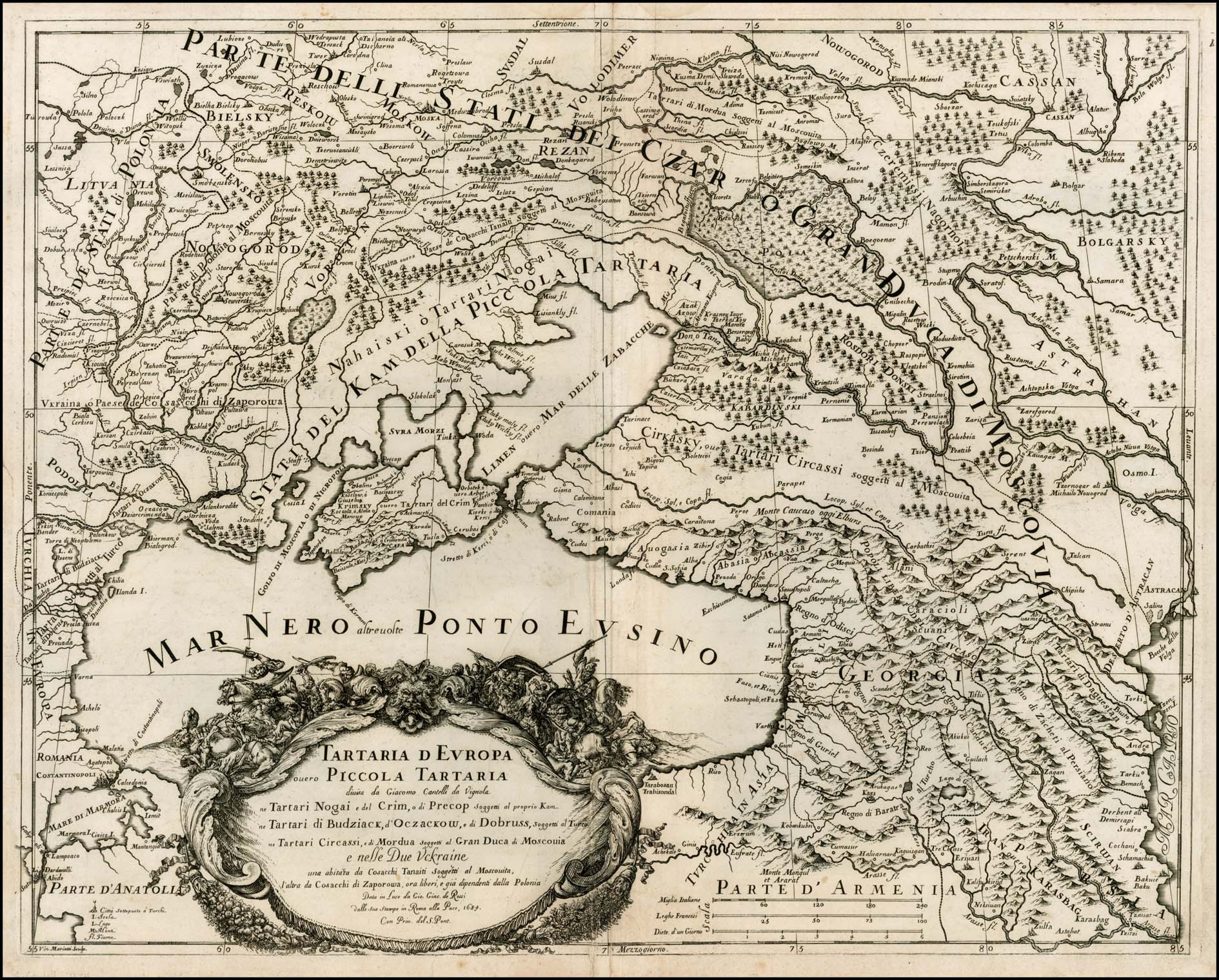 Map of the Ukraine, Georgia, Moscovy, Southeastern Poland / Lithuania and the Black Sea, by Cantelli da Vignola and published in Rome by Rossi. The map provides one of the most detailed and up to date treatments the area centered on the newly defined Ukraine, Black Sea and neighboring regions, with an ornate allegorical cartouche depicting the bloodly conflicts then being waged in the region.